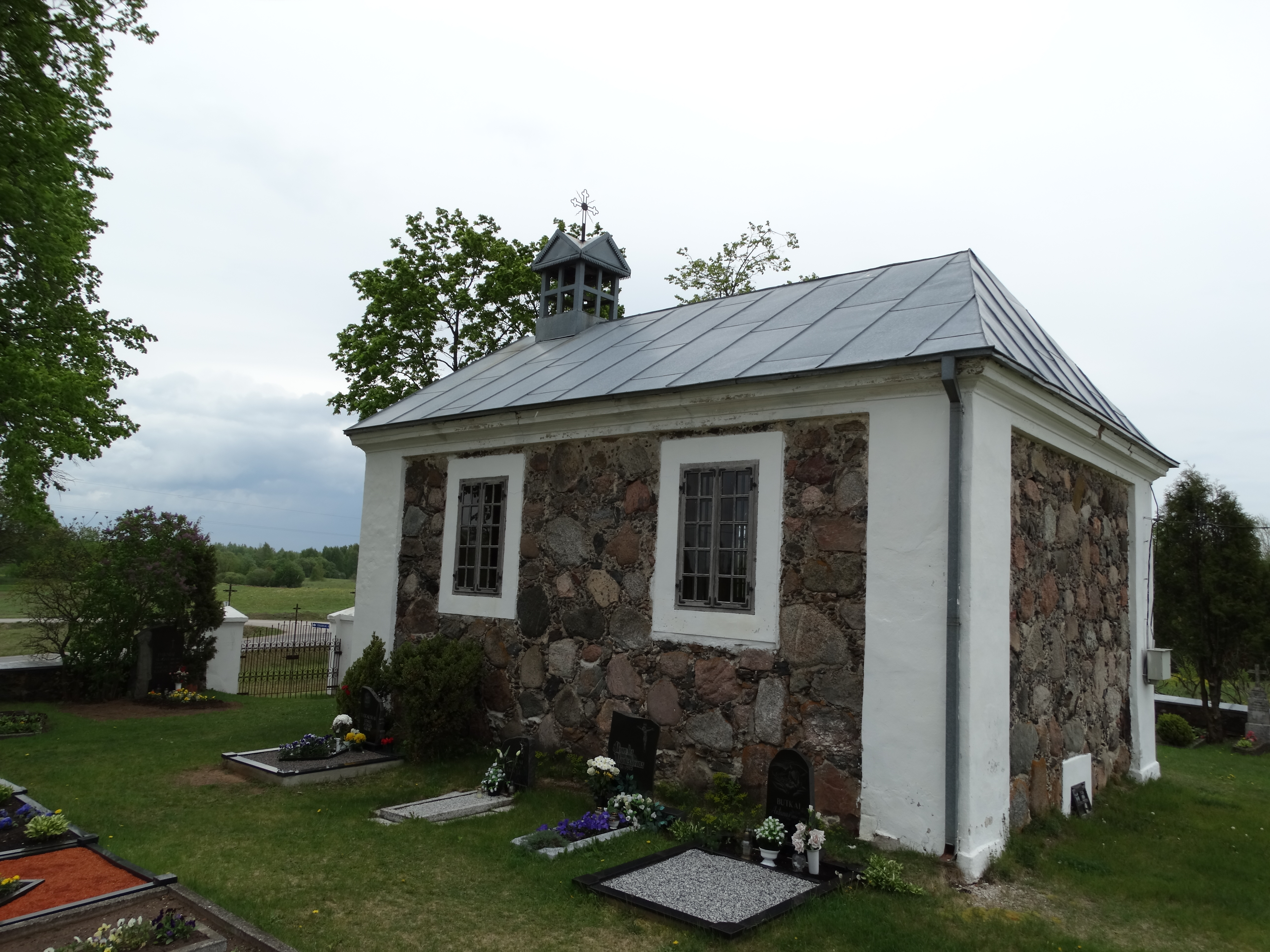 Chapel in Skuoliai, Ukmergė District, Lithuania